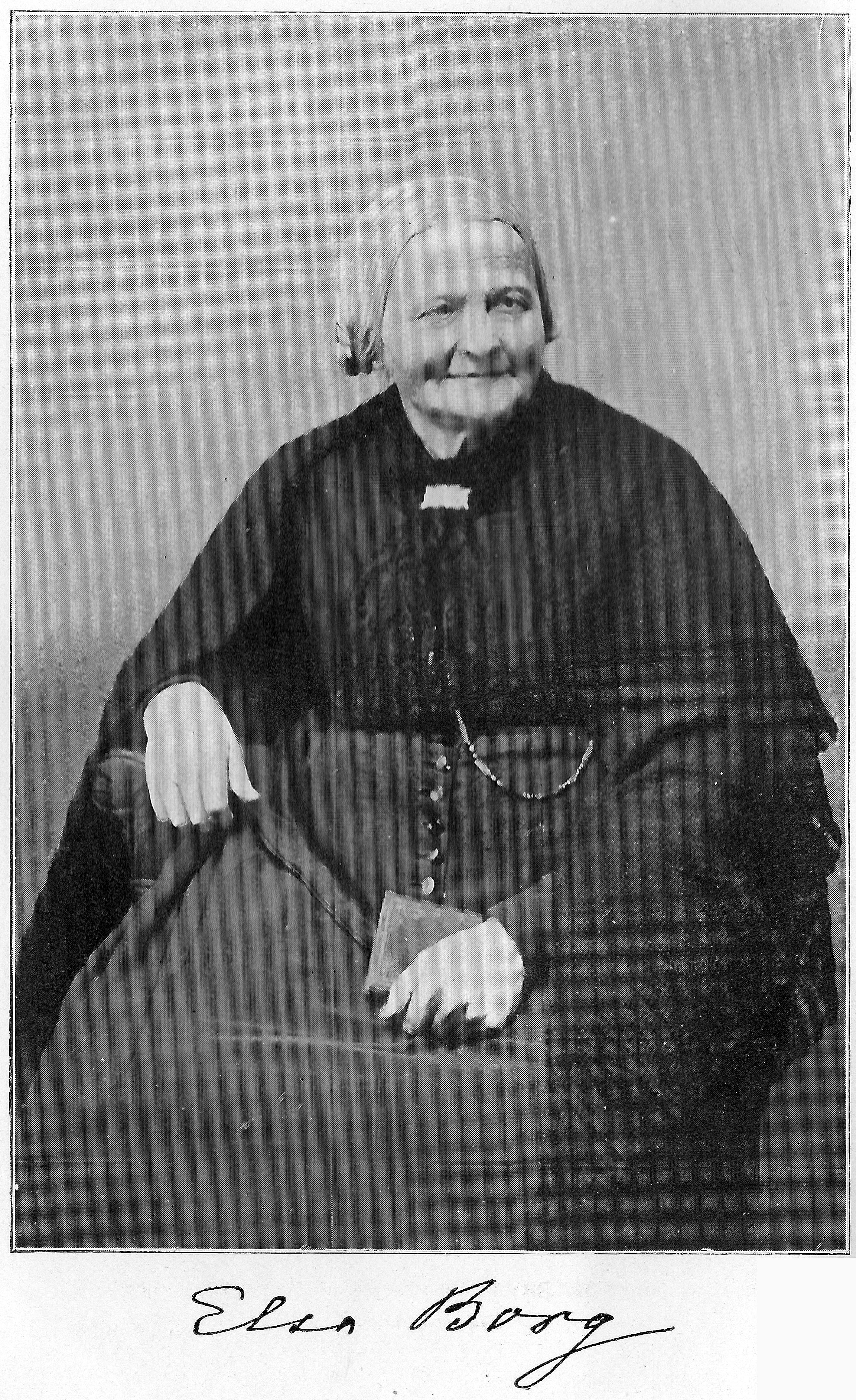 Social Mission worker Elsa Borg, born July 19, 1826, died February 24, 1909, working in the Mission of Vita Bergen in Stockholm 1876-1909